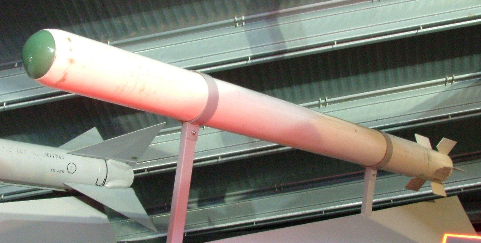 Mockup of SRAAM missile on display at RAF Museum Cosford